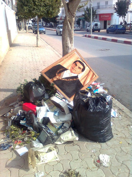 Full story: القصة l'histoire